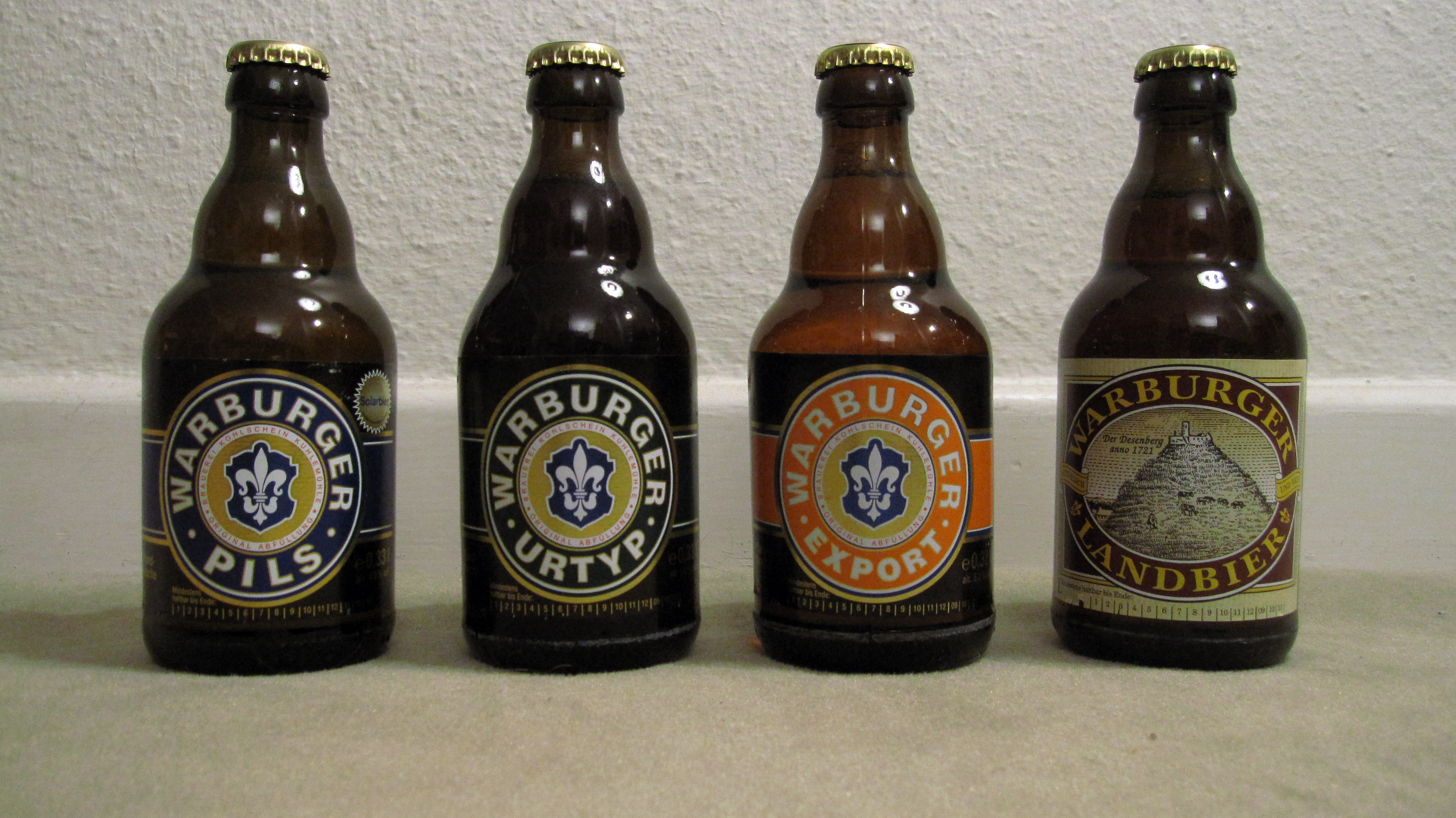 Four bottles of Warburger beer (Warburger Pils, Warburger Urtyp, Warburger Export, Warburger Landbier), German beer from Warburg, North Rhine-Westphalia.